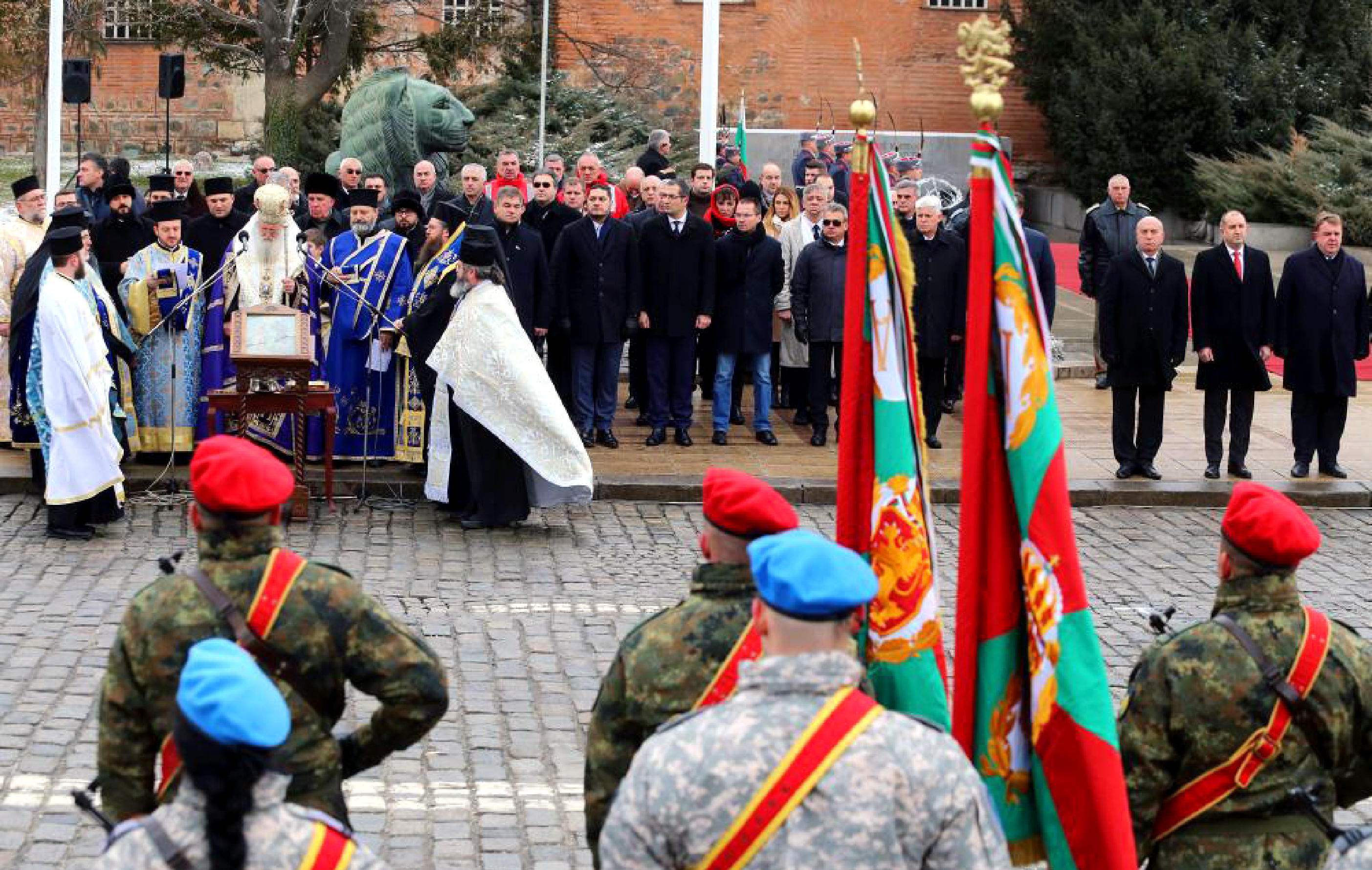 Milomir Bogdanov of Ongal on the official ceremony of the blessing of the battle flags of the Bulgarian army 5th of January